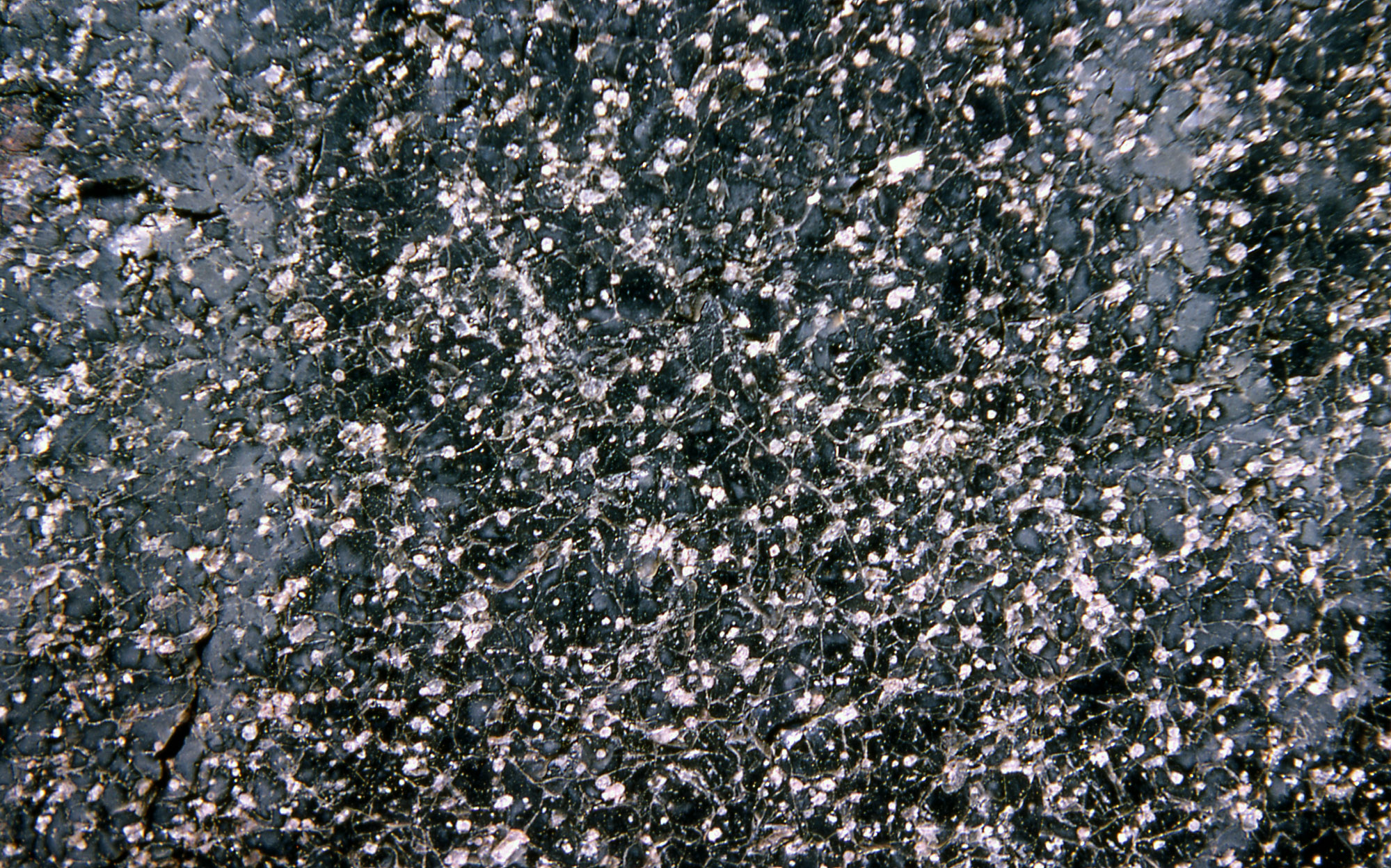 Close up of Perlite in Yellowstone National Park